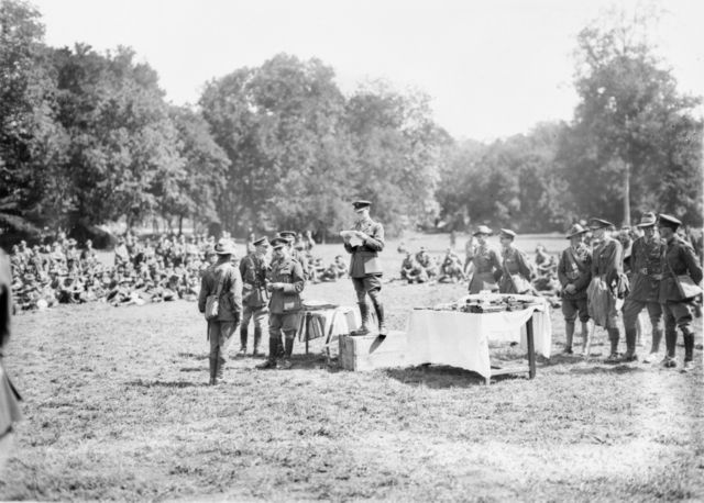 AWM Caption: Lieutenant General Sir John Monash KCB VD, presenting decorations to members of the 4th Australian Infantry Brigade, after their success in the Battle of Hamel. Left to right: Unidentified soldier receiving decoration Brigadier General C. H. Brand CB CMG DSO General Monash Captain P. W. Simonson, Aide de camp to Corps Commander Captain (Capt) R. H. Lackman, Staff Captain, 4th Australian Infantry Brigade (standing on boxes) Lieutenant Colonel H. W. Murray VC DSO DCM or Lieutenant G. F. Wilson, Aide de camp, 14th Battalion Capt A. M. Moulden Lieutenant Colonel P. T. McSharry DSO MC, 15th Battalion Mr C. E. W. (Charles) Bean, Official War Correspondent.